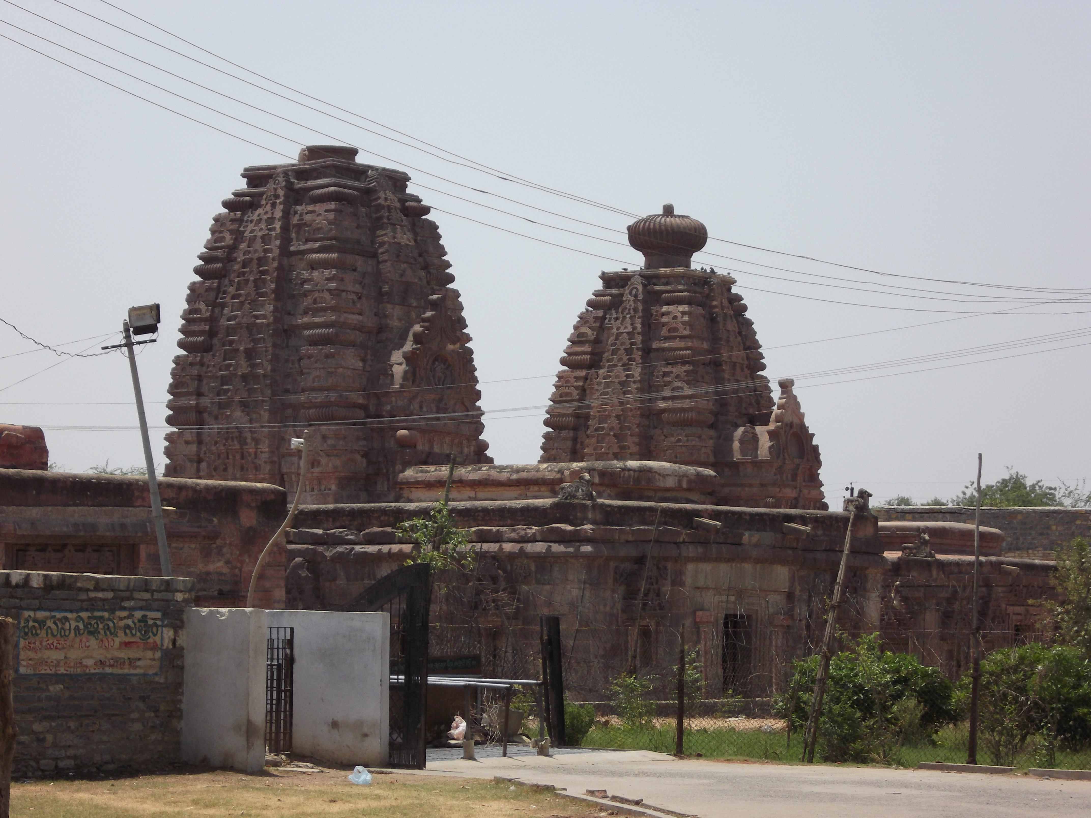 Alampur Papanasi Temples, these are two of the twenty three 9th to 11th century temples.